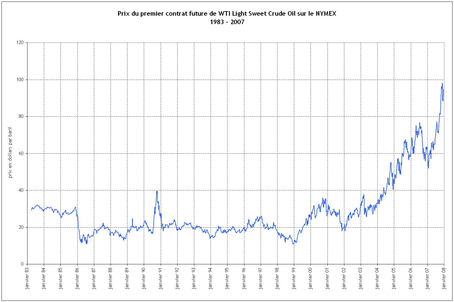 Historical crude oil prices 1983-2007